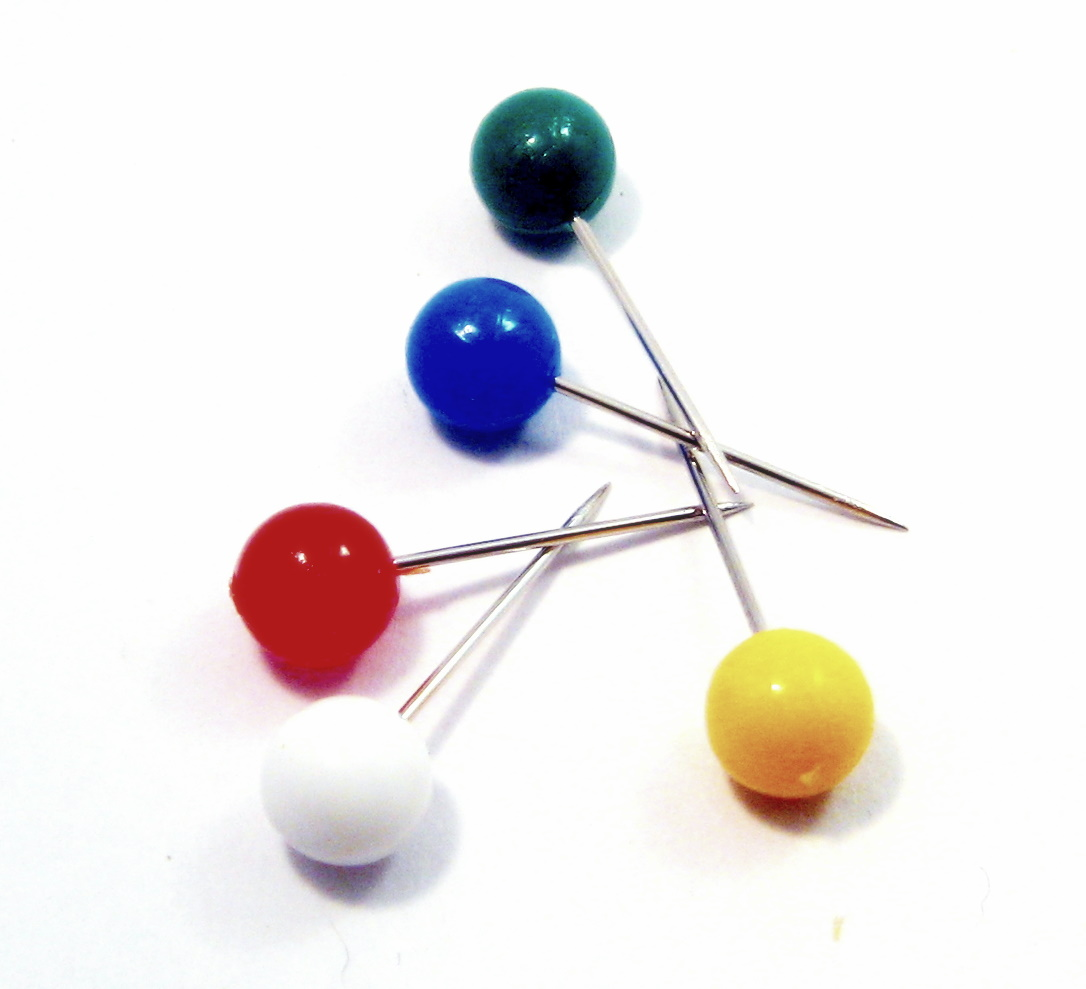 Colored pins